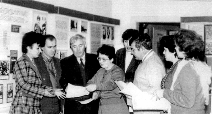 V. Kmetsynskyi with museum visitors. The 80 years of XX century.